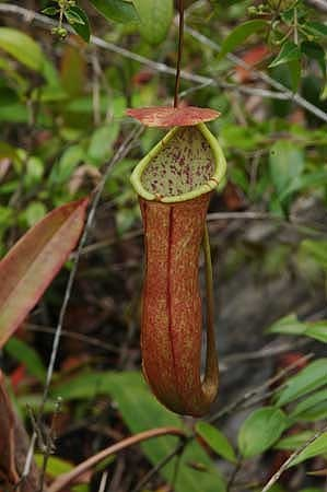 Natural habitat of Nepenthes × bauensis